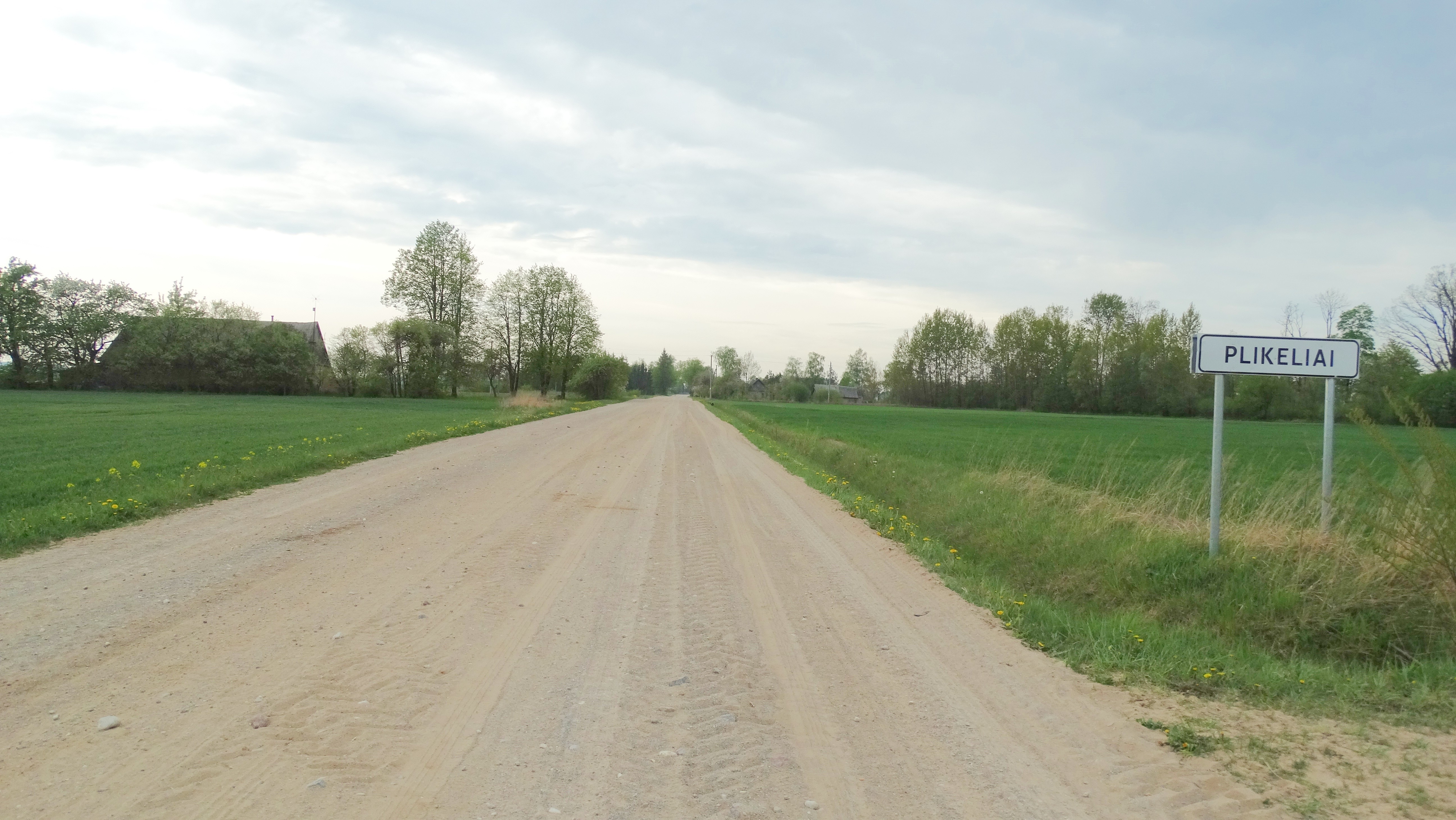 Plikeliai, Pakruojis District, Lithuania